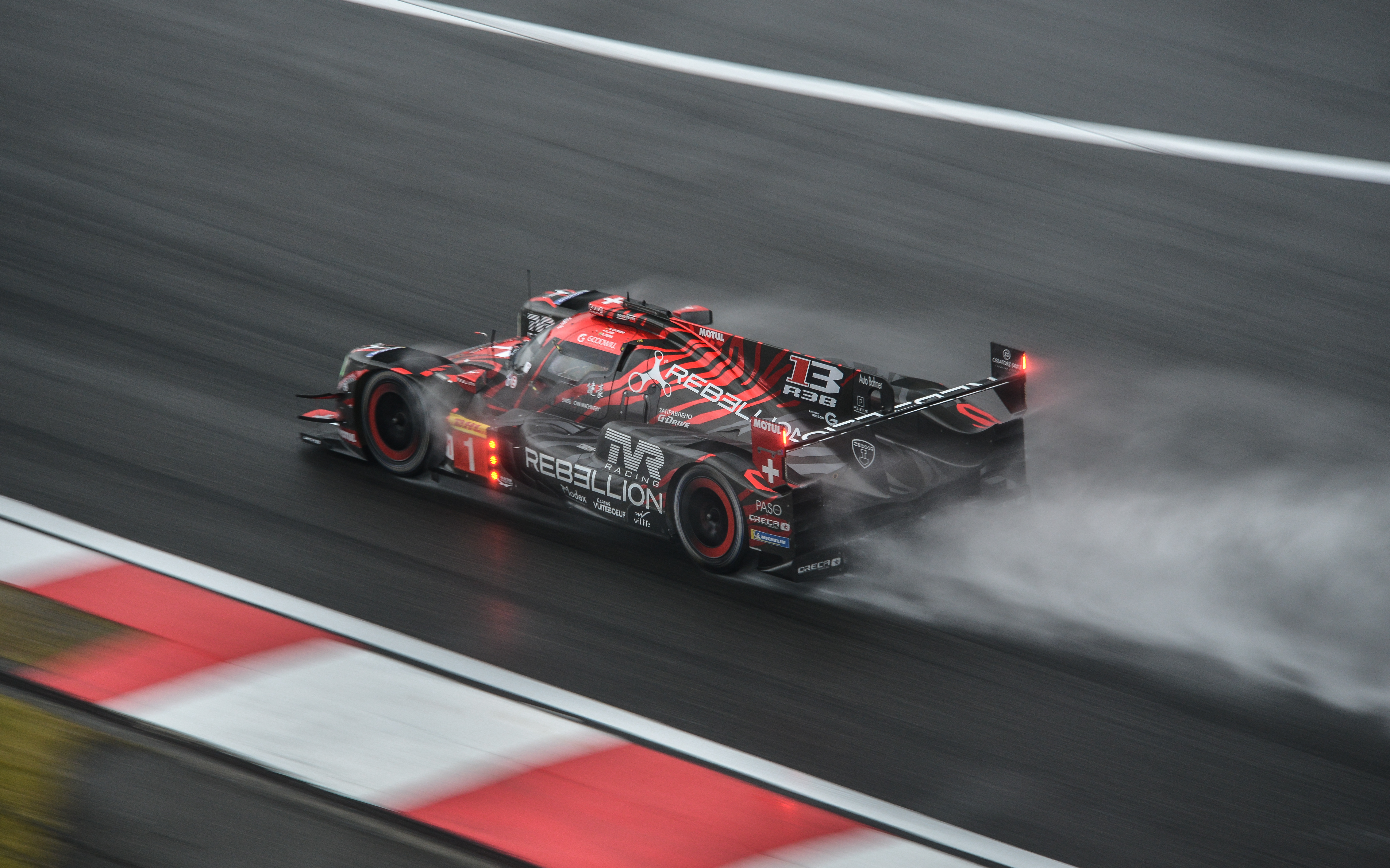 2018 6 Hours of Shanghai.